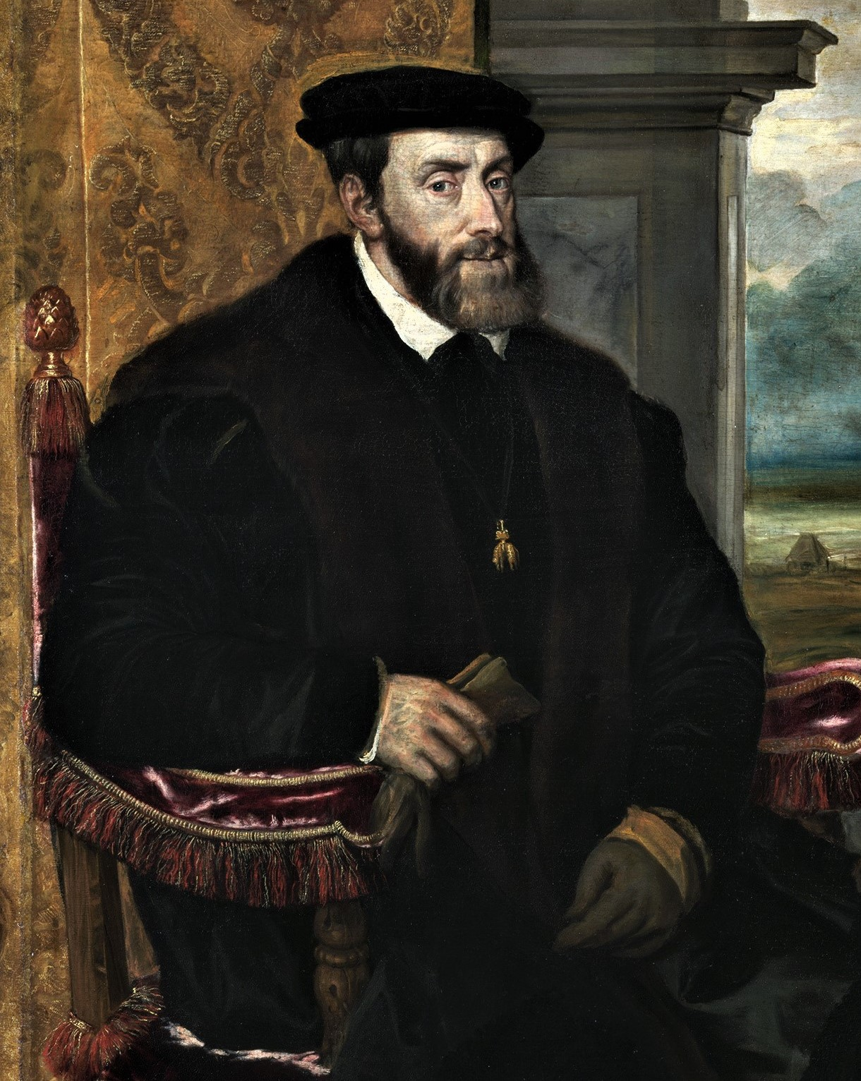 Charles of Austria, King of Spain and Emperor of the Holy Roman Empire